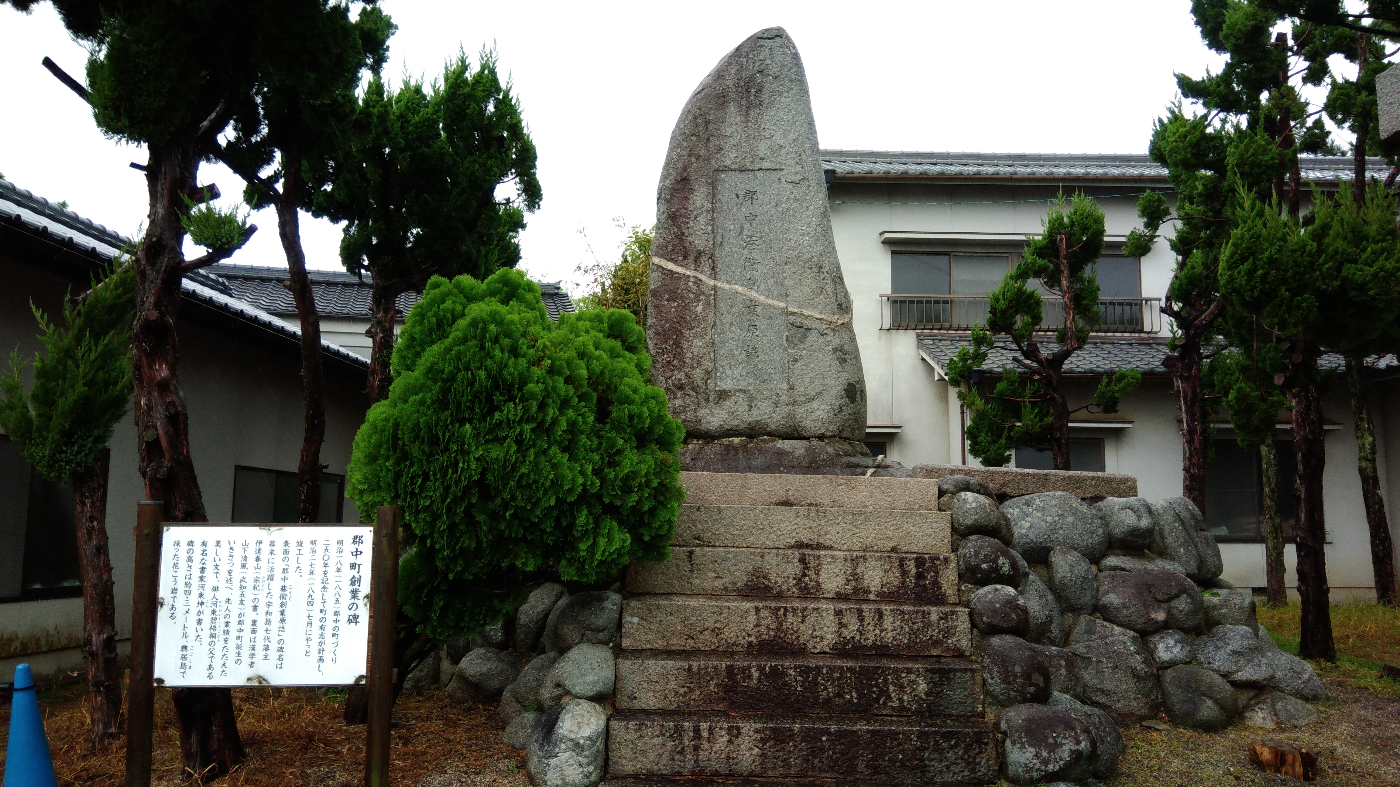 Stone Monument of Gunchu Town (郡中巷衢創業原誌碑) at Goshikihama Park (五色浜公園), Iyo City, Ehime Prefecture, Japan